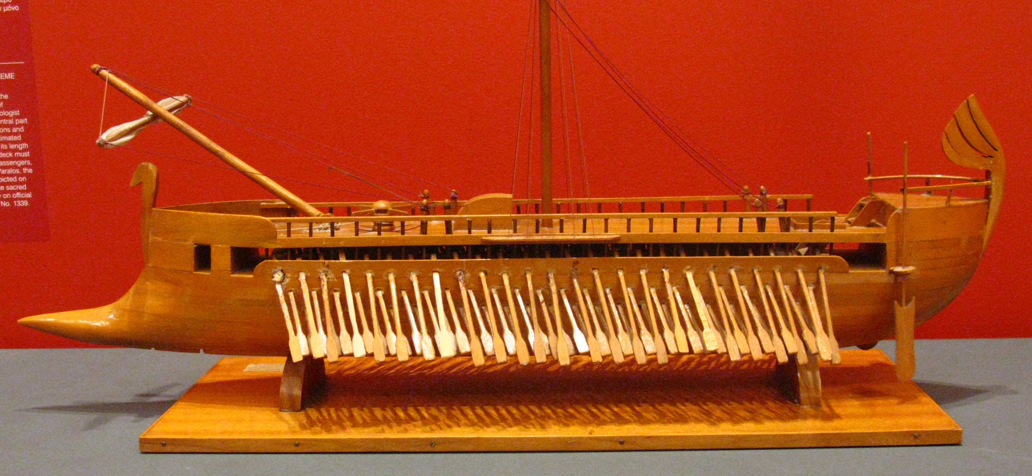 From the Acropolis of Athens. Found near the Erechtheion in 1862, is known as the "Relief Lenormant" and is named after the archaeologist who discovered it. What remains is: the central part of a trireme with nine rowers in their posisions and the upper part of the crew. It has been estimated that the ship had a total of 20 rowers and its length was 190m. X 0.95. width. The crew on deck have included its pilot, the captain and passengers, while to the far right is seated the hero, Paralos, the discoverer of navigation. The trireme depicted on the relief is synonymous with Paralos, the sacred vessel of the Athenians who used it only on official state visits. Athens, Acropolis Museum, No. 1339. Offer: Hellenic Ministry of Culture, Archaeological Receipts Fund.